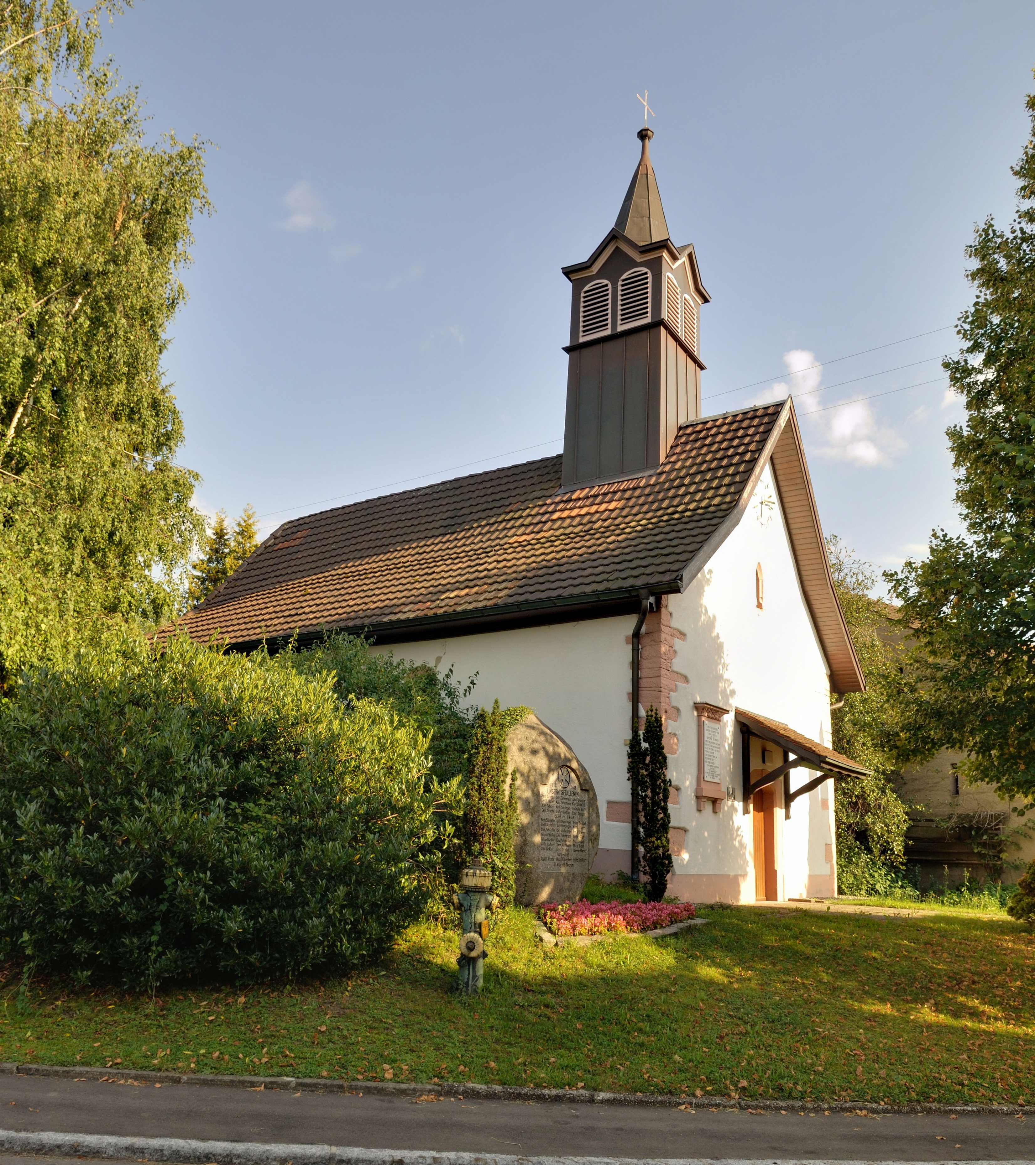 Steinen-Hüsingen: Protestant Church